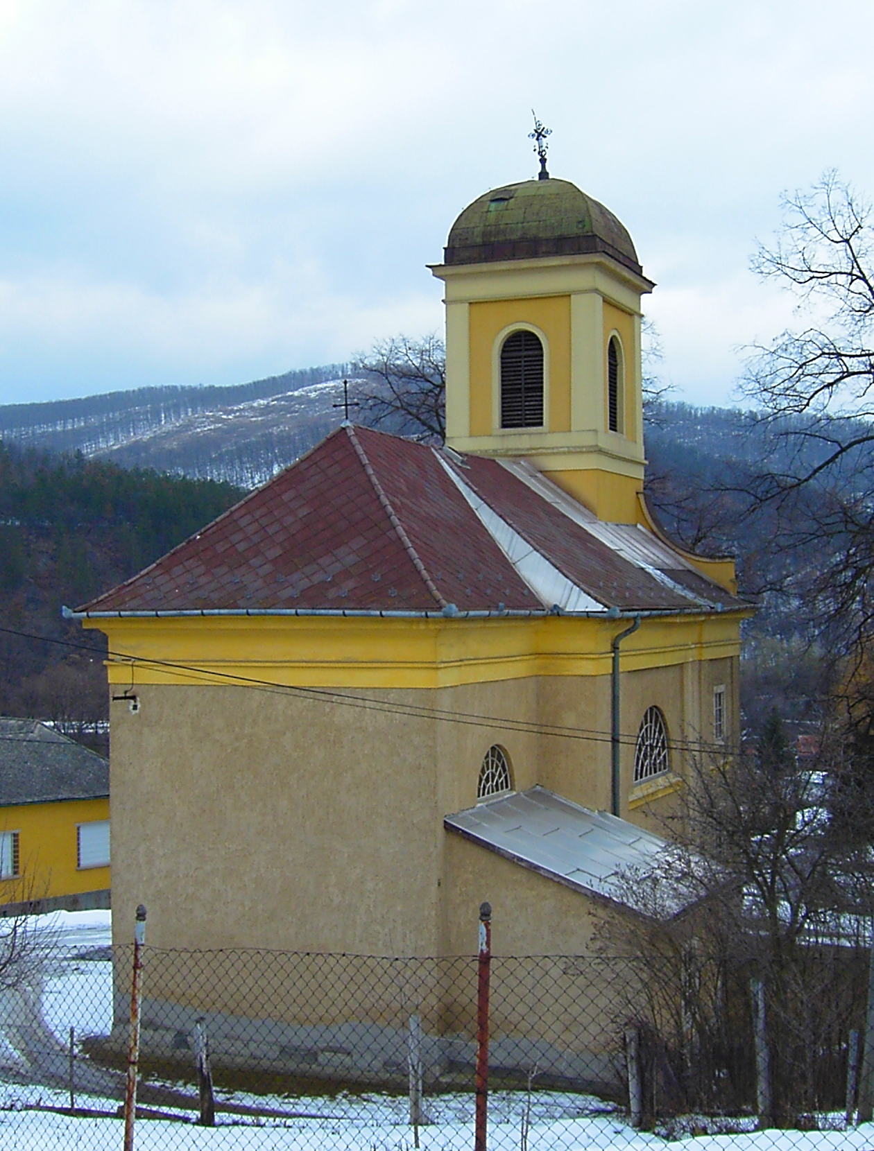 Roman Catholic Church Of Szarvaskő